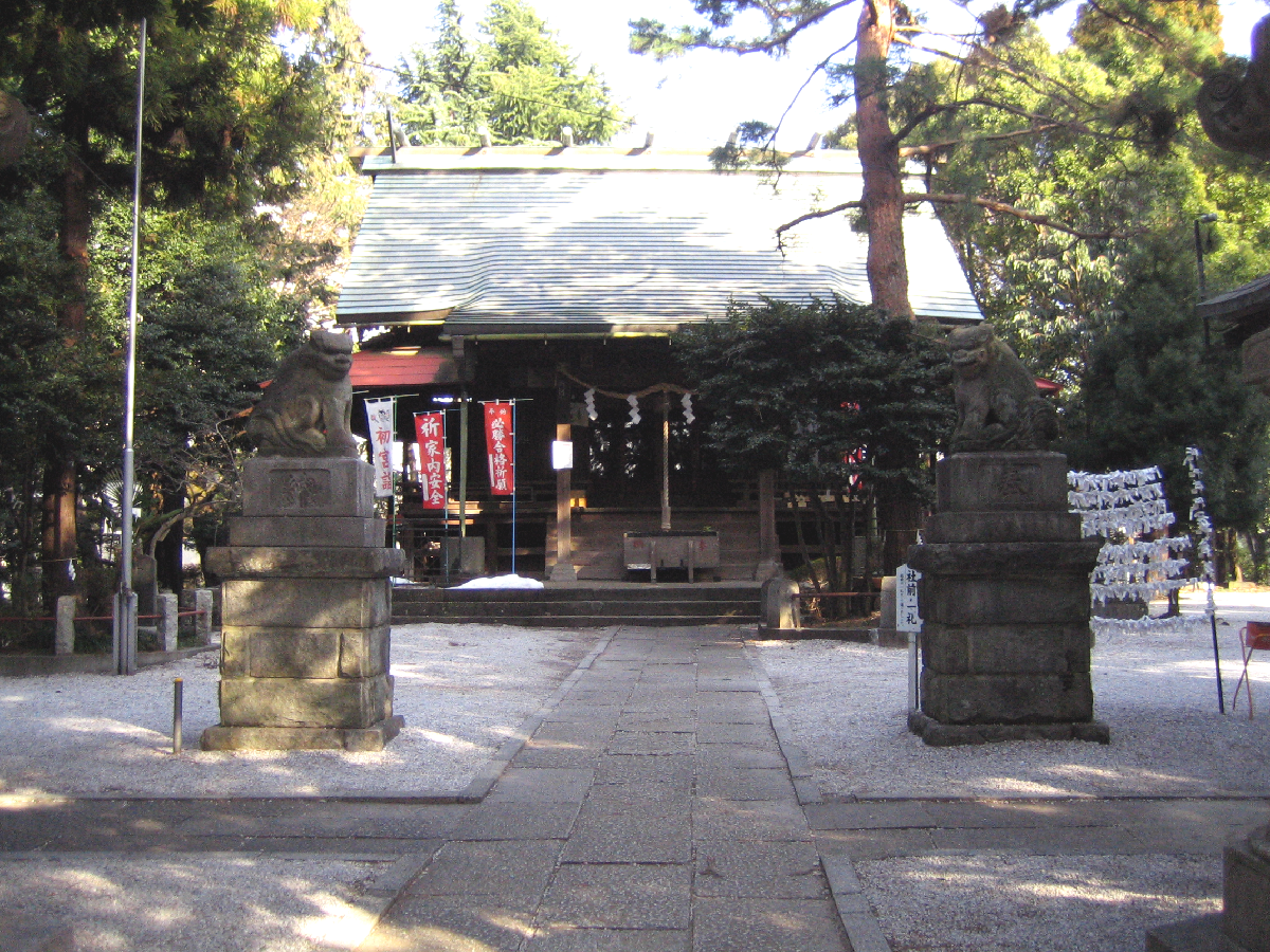 Atago Shrine in Iruma, Saitama.